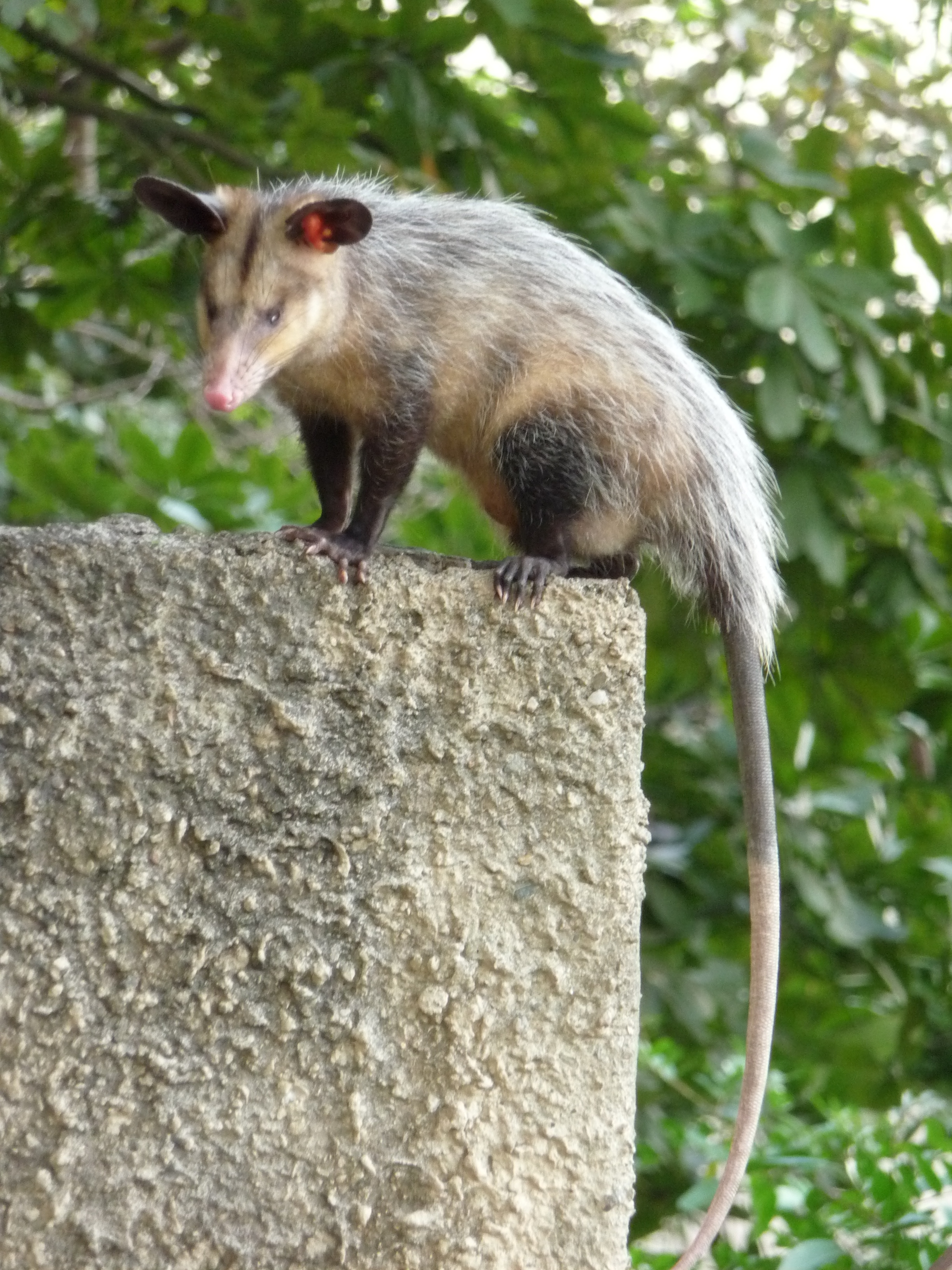 An urban Opossum found while walking in the streets of Caracas